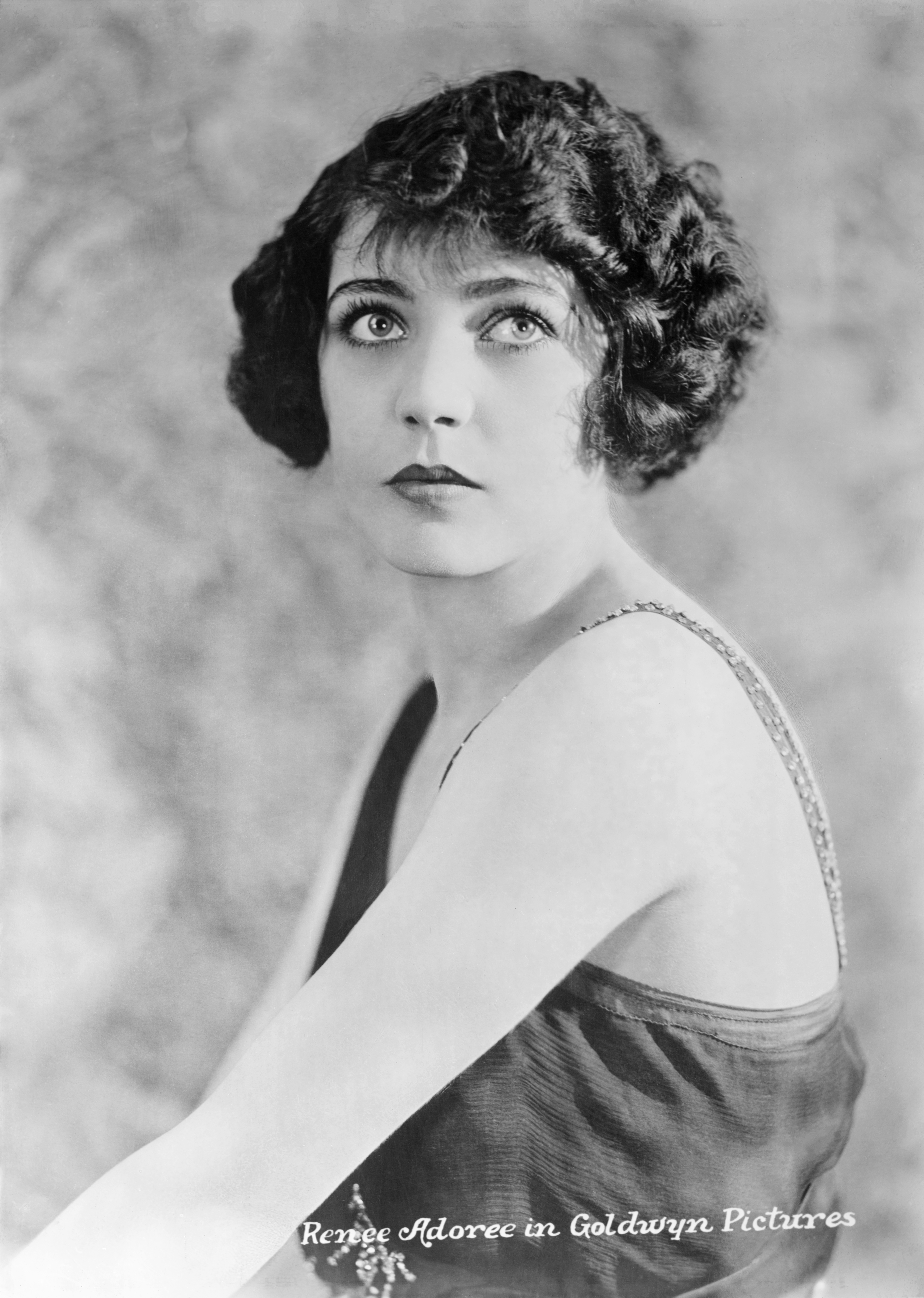 Renée Adorée in Goldwyn Pics. TITLE: Renée Adorée in Goldwyn Pics CALL NUMBER: LC-B2- 5491-9[P&P] REPRODUCTION NUMBER: LC-DIG-ggbain-32653 (digital file from original negative) RIGHTS INFORMATION: No known restrictions on publication. MEDIUM: 1 negative : glass ; 5 x 7 in. or smaller. CREATED/PUBLISHED: [no date recorded on caption card] CREATOR: Bain News Service, publisher. FORMAT: Glass negatives. CONTROL #: ggb2006008066